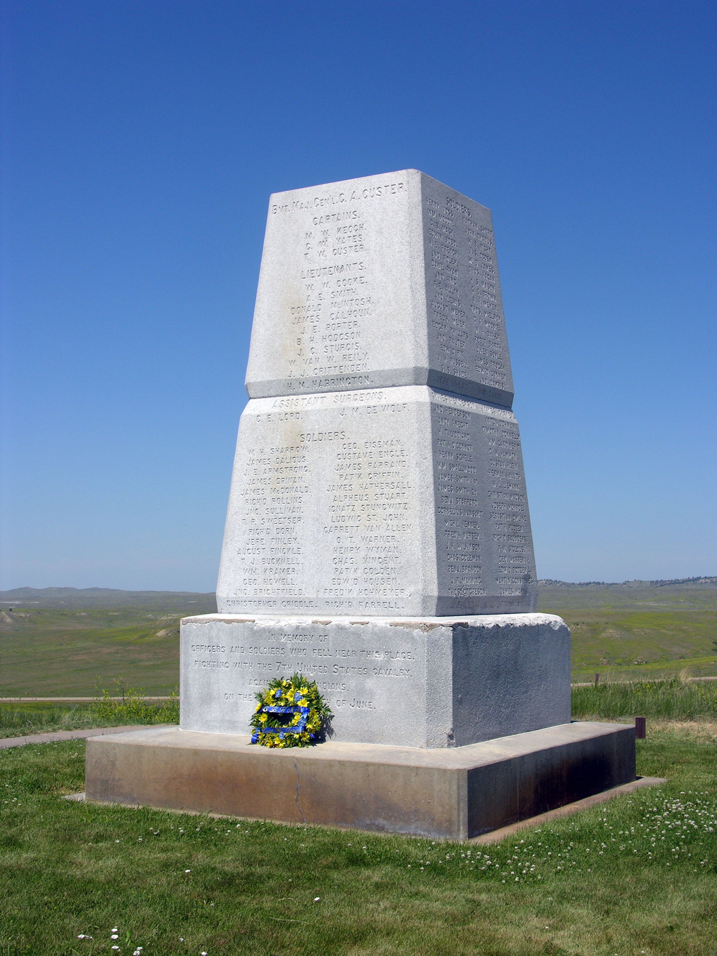 Little Bighorn Battlefield Monument